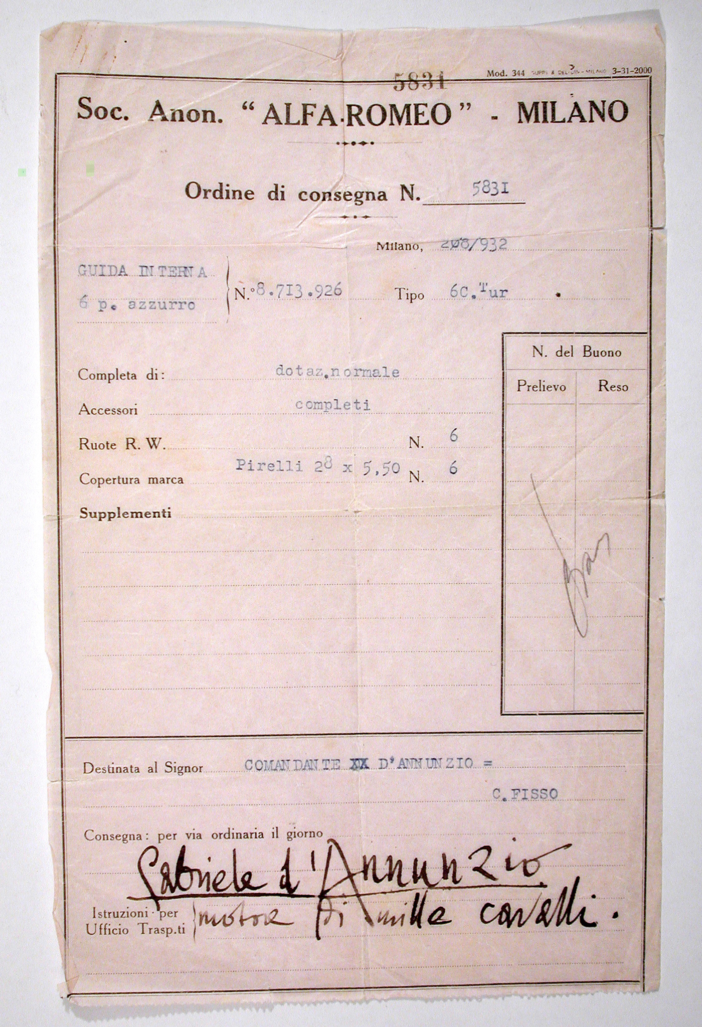 Delivery order of an Alfa Romeo car to Gabriele d'Annunzio. Signed by him, with the hand-written note "motore di mille cavalli" (A thousand HP engine).